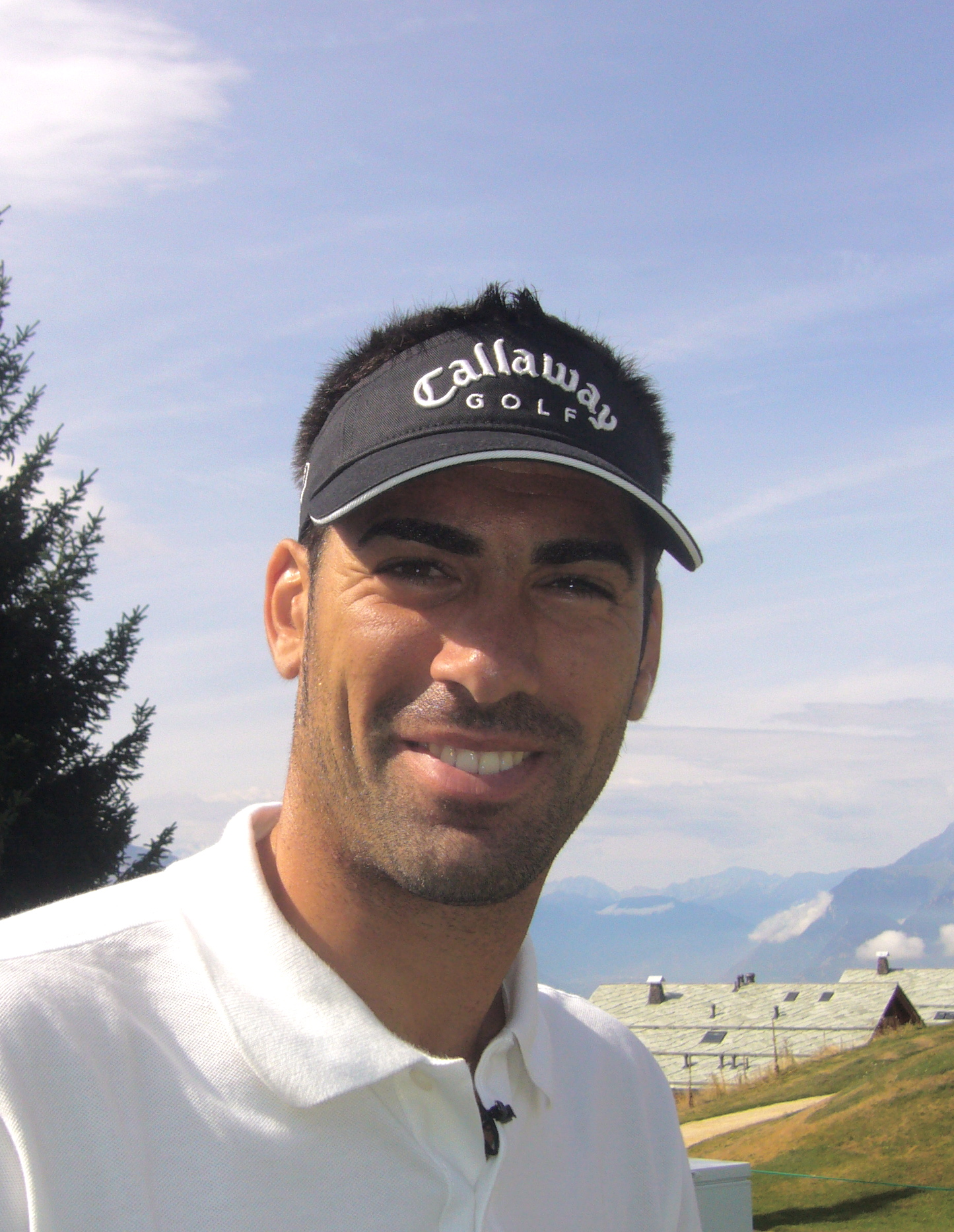 Alvaro Quiros, Spanish professional golfer